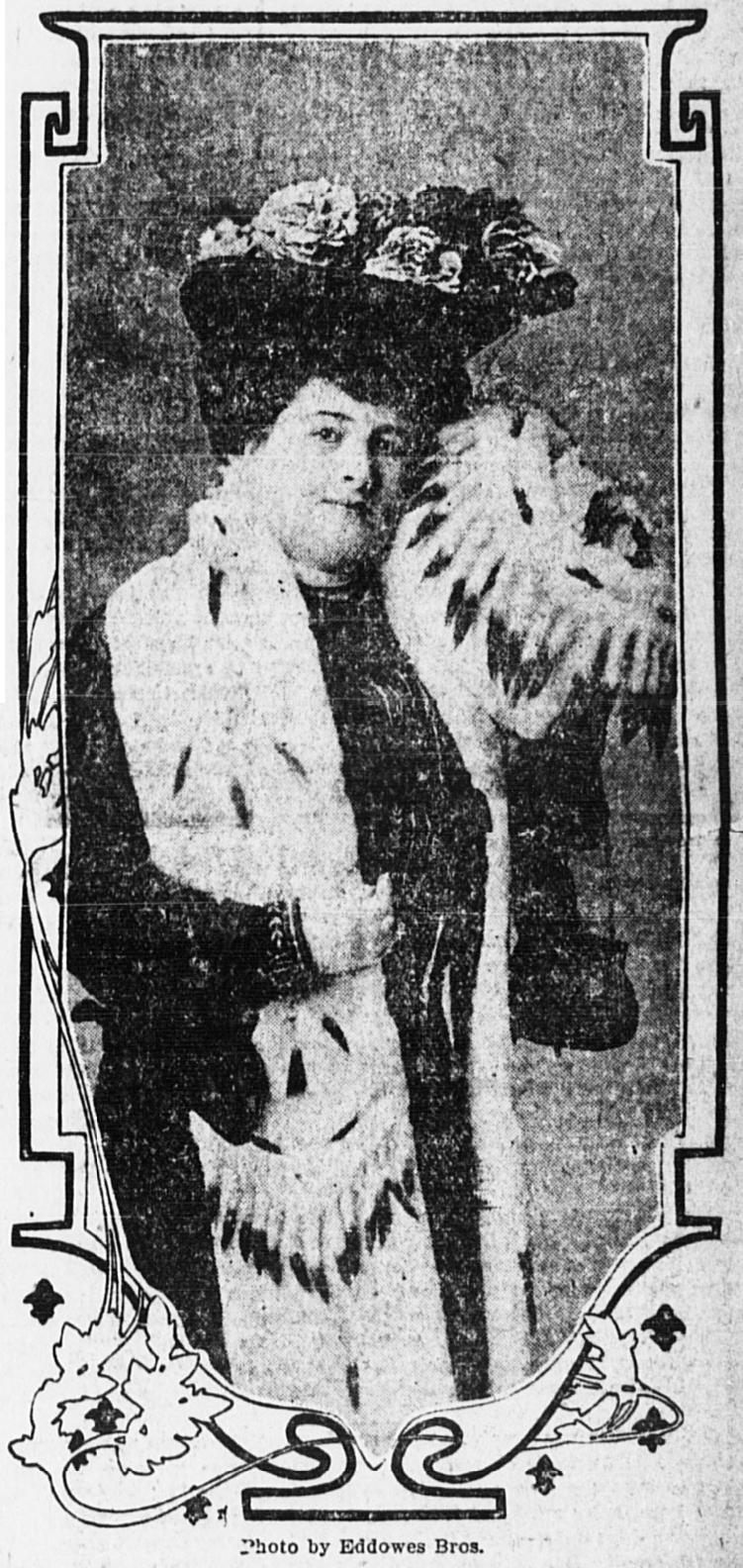 Mrs. Ballou, the presumed widow of Walter Watrous, as seen on the front page of the Evening World (New York), 23 June 1903.